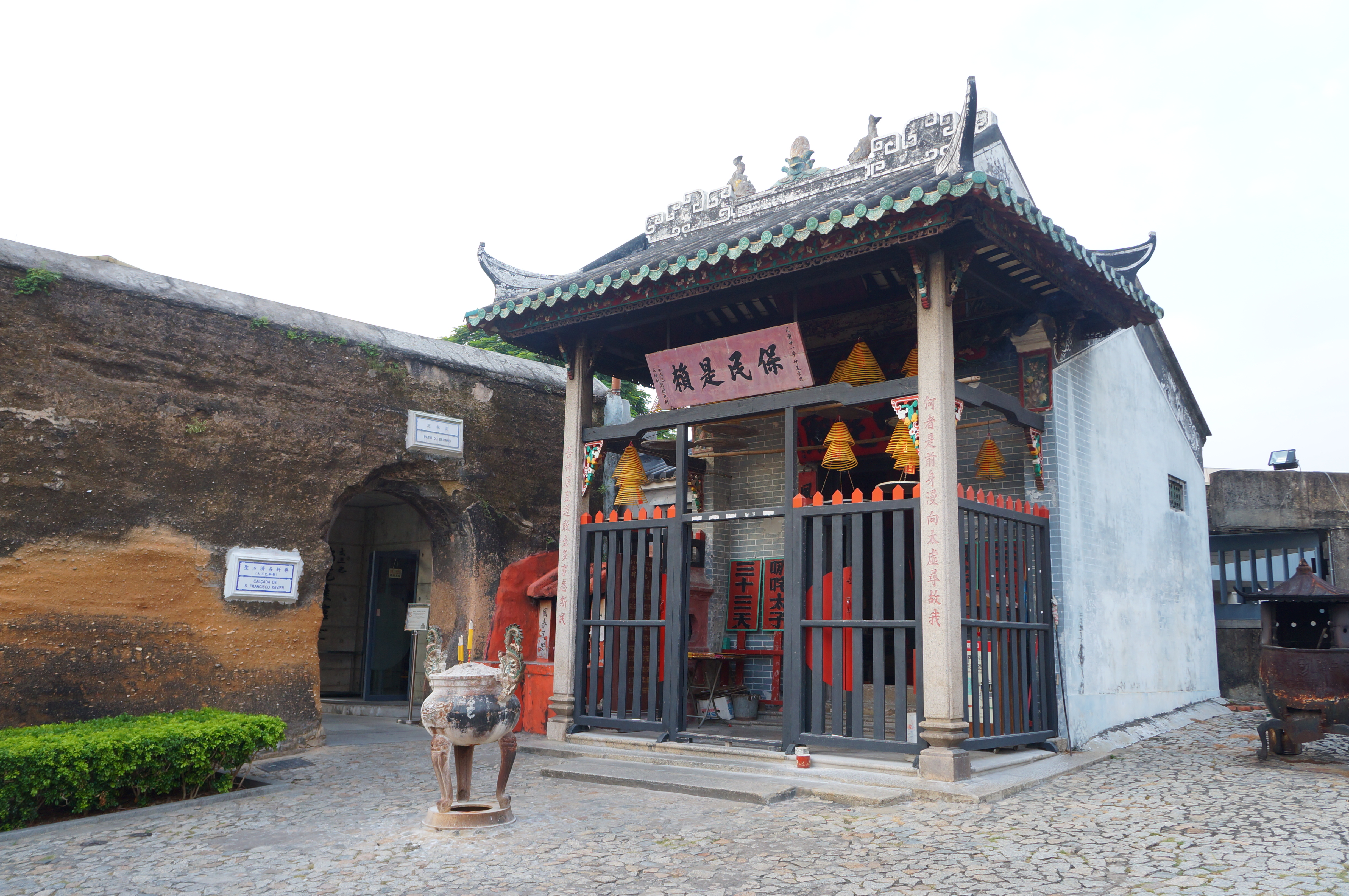 Photo of Na Tcha Temple